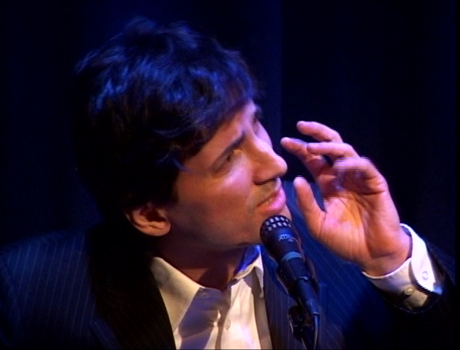 Joao MacDowell Trio performing in New York, February, 2011